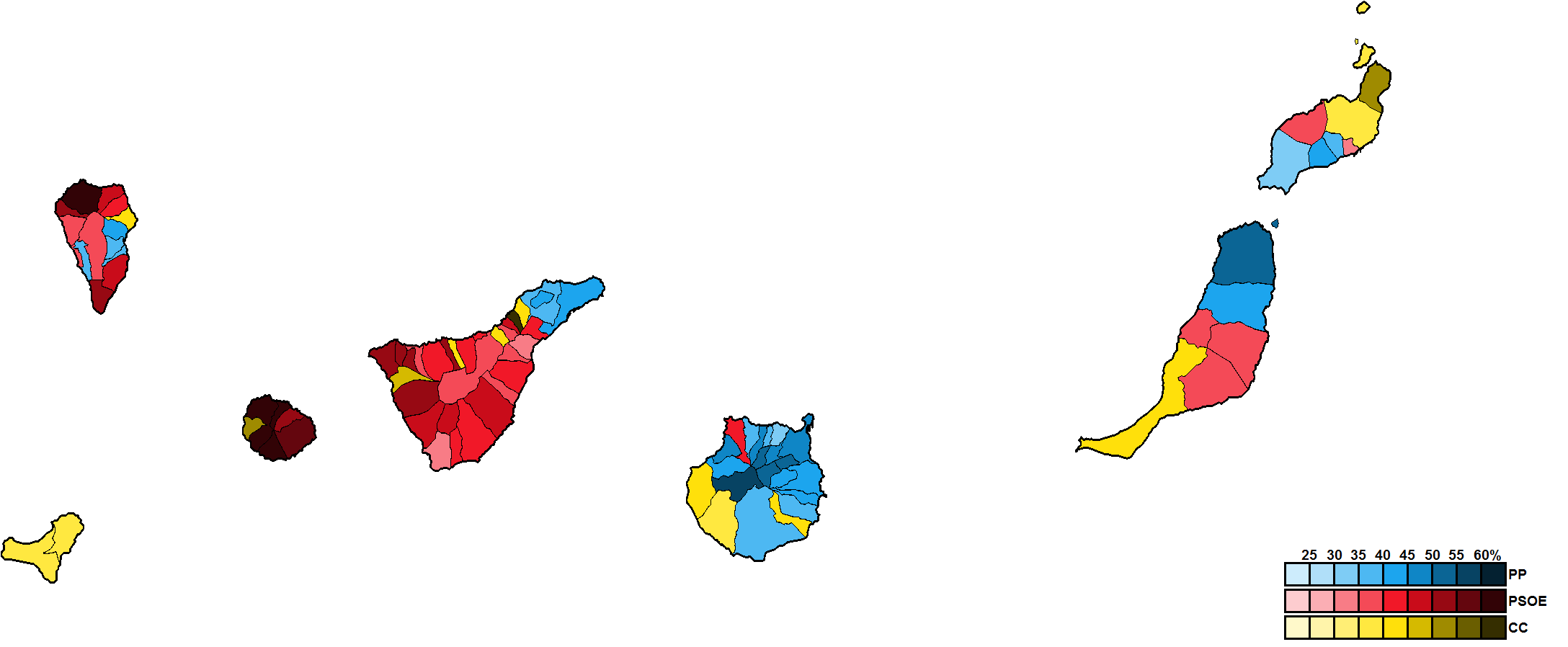 Most-voted party in Canary Islands municipalities, showing vote share obtained, in the Spanish general election, 1996.